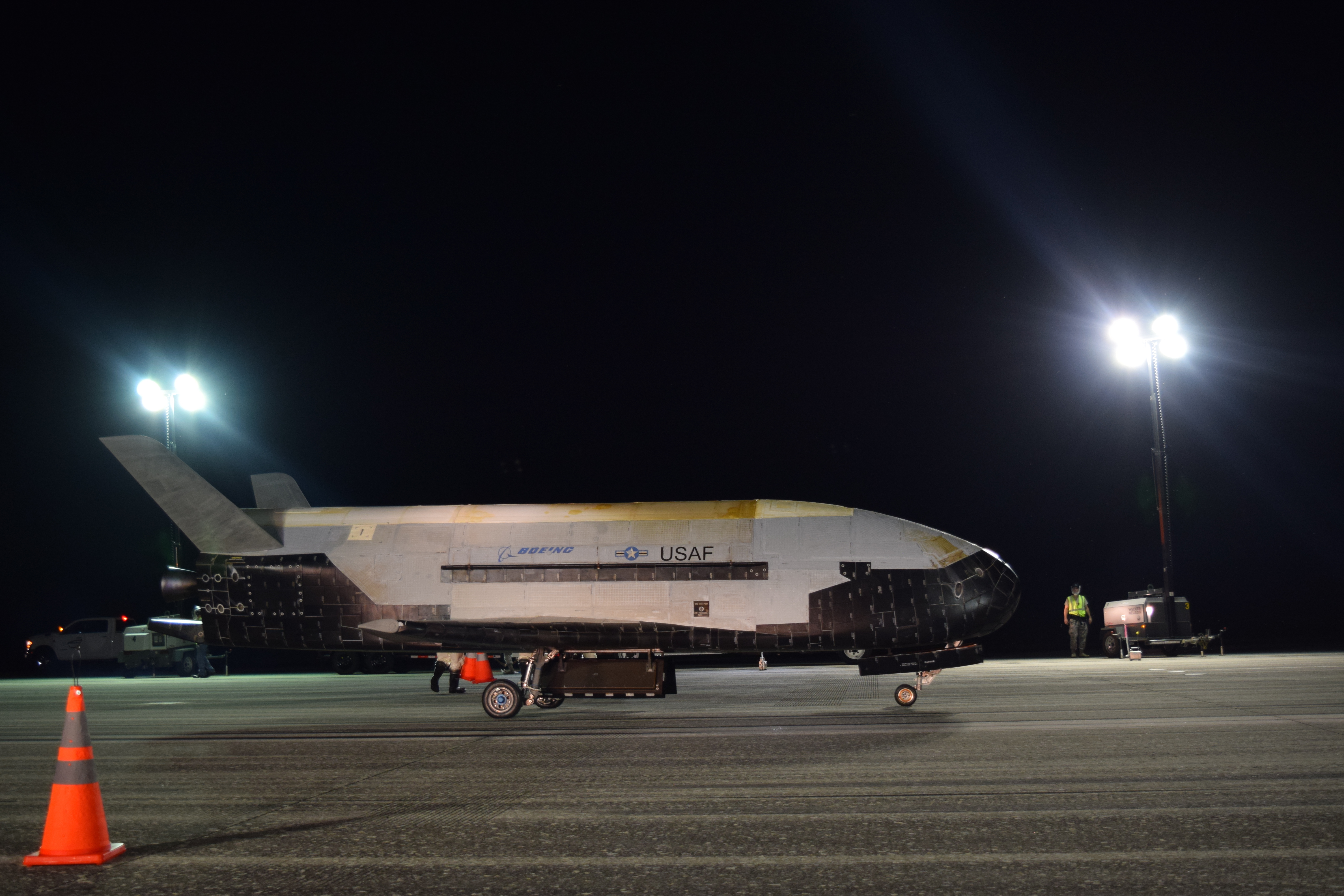 The Orbital Test Vehicle 5 (OTV-5) vehicle of the X37B program landed at NASA's Kennedy Space Center Shuttle Landing Facility on 27 October 2019 after 780 days in space.